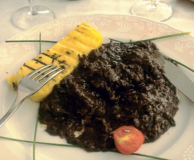 Horse meat, a typical recipe from Verona